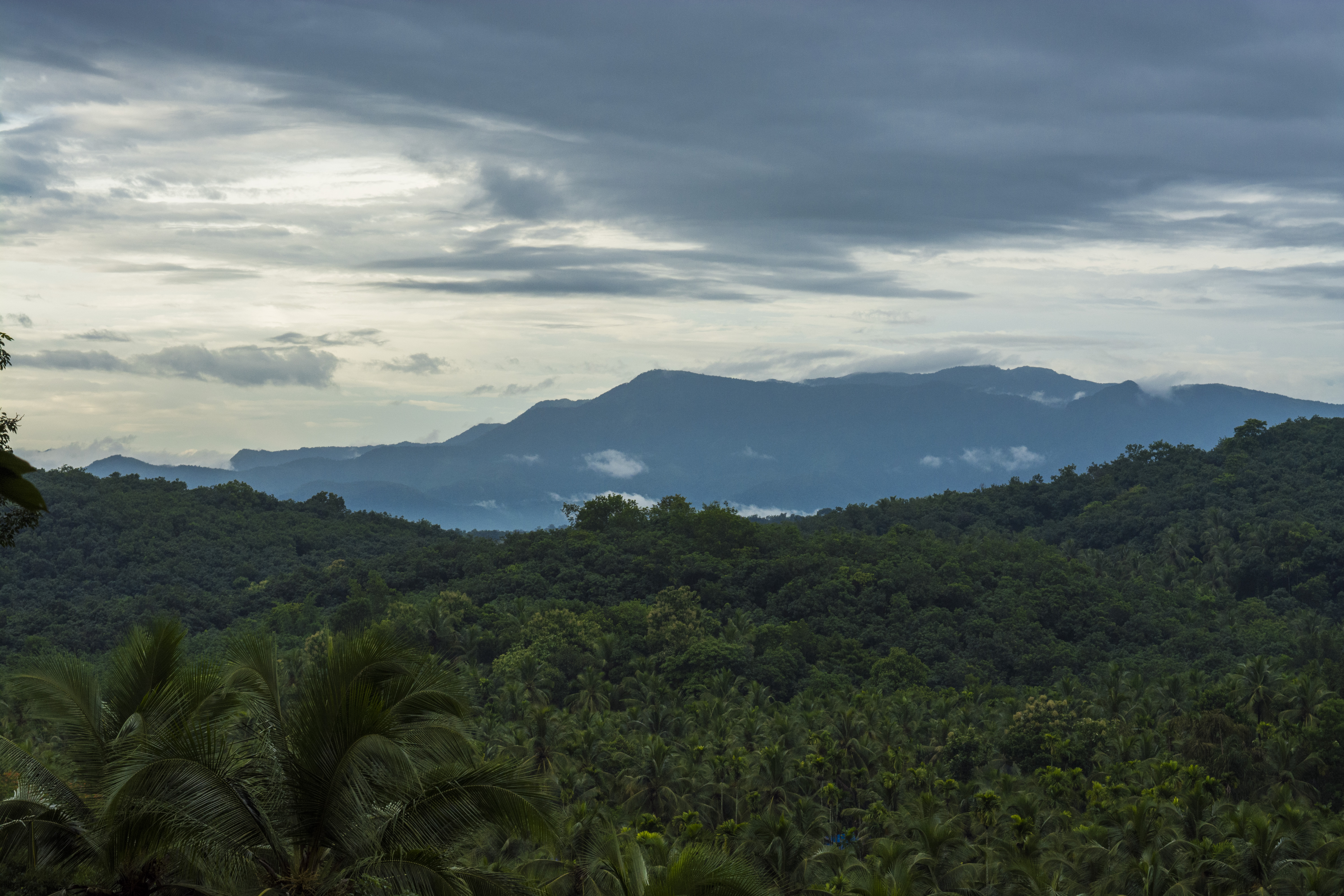 Western Ghat is one among the natural heritage site in India